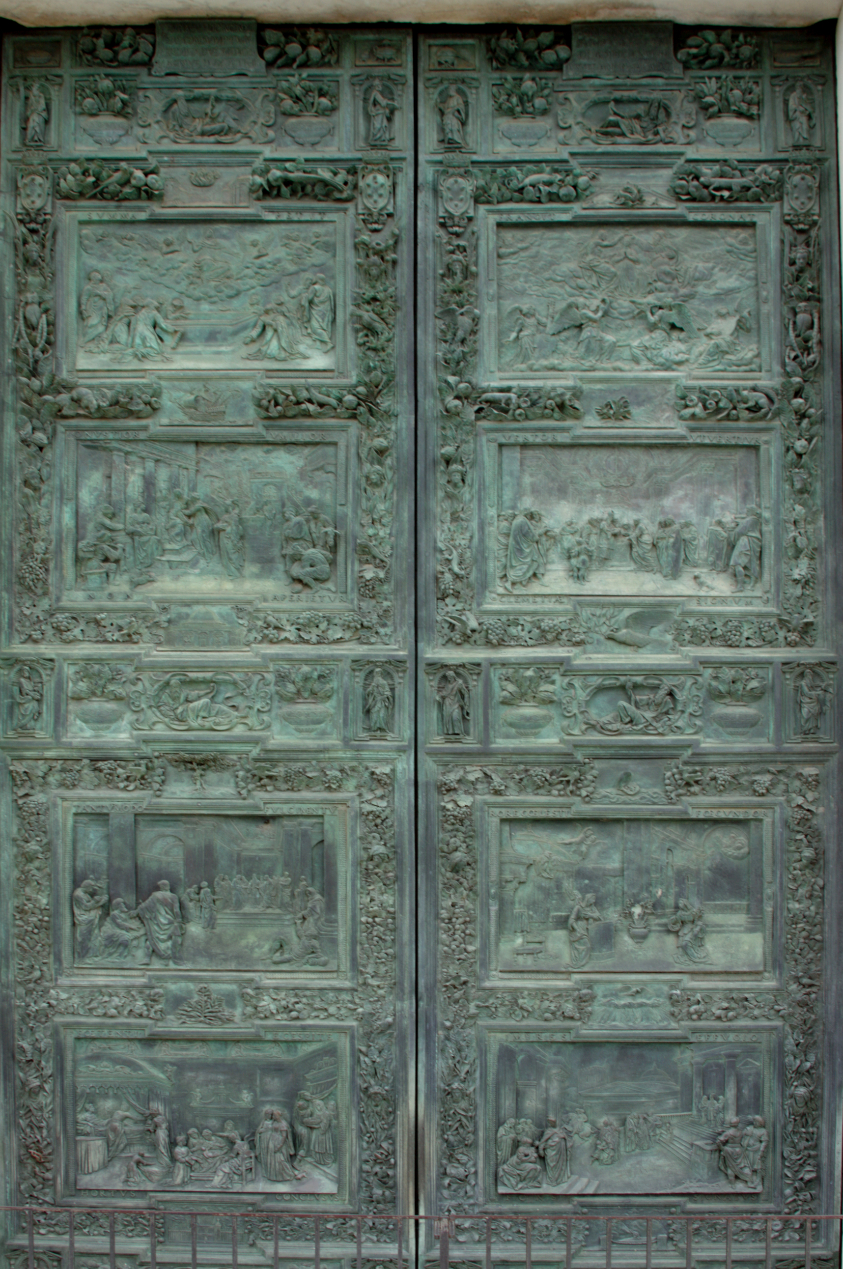 Duomo